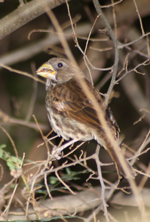 Female Thick-billed Weaver Amblyospiza albifrons in KwaZulu Natal, South Africa